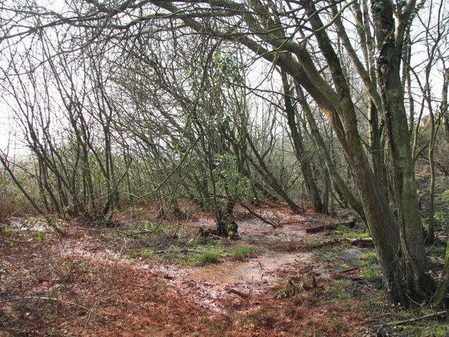 Crymlyn Bog Seepage from old coal mines deposits iron-rich sediment near the head of the Glan-y-Wern Canal (1790), reputed to be the first canal in Wales. There is a treacherous vegetation mat over soft peat.